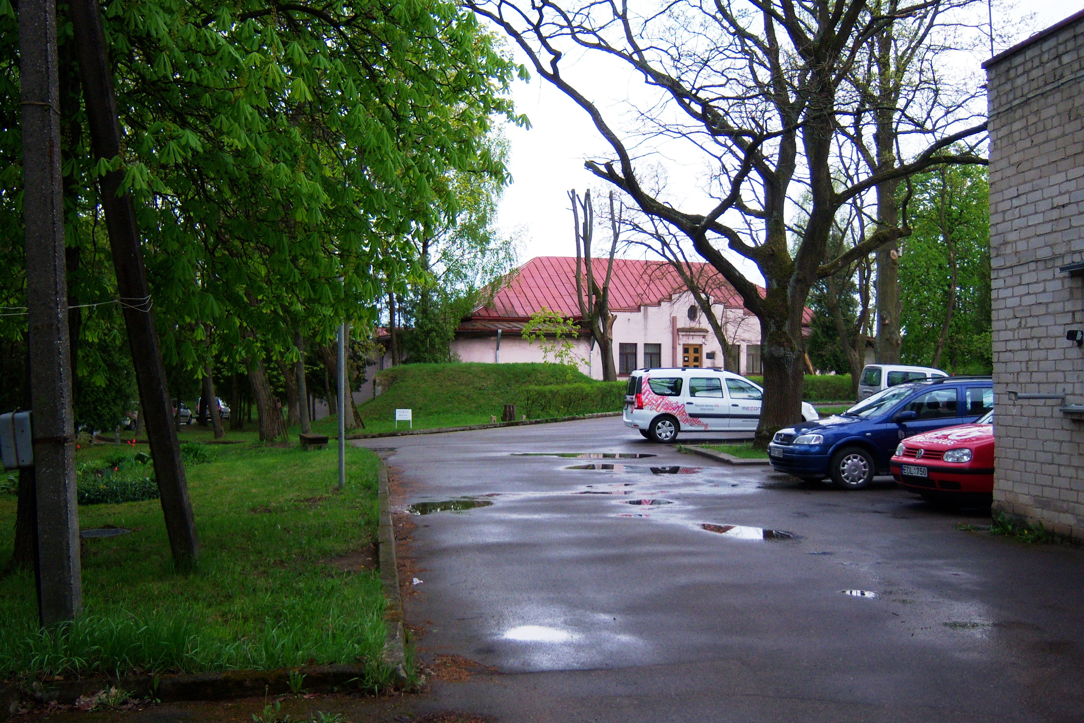 Kaunas Fortress Radio Station (1915), Lithuania Kategorija: Kauno tvirtovė